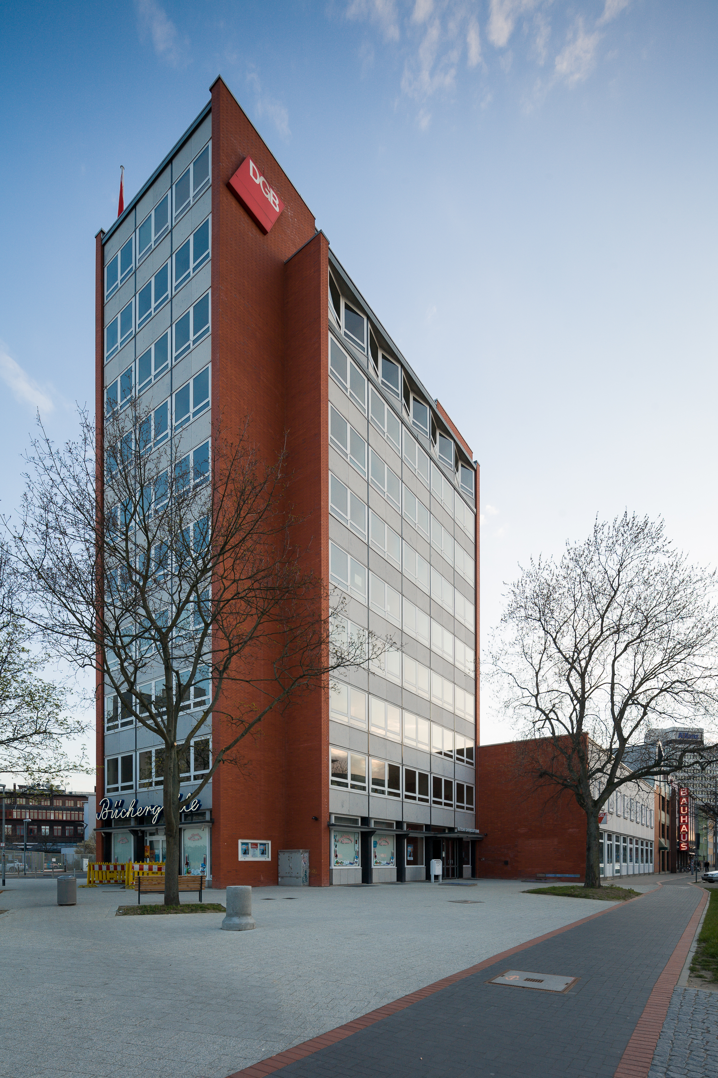 Office building of DGB labor union located at Otto-Brenner-Strasse in Hanover, Germany.